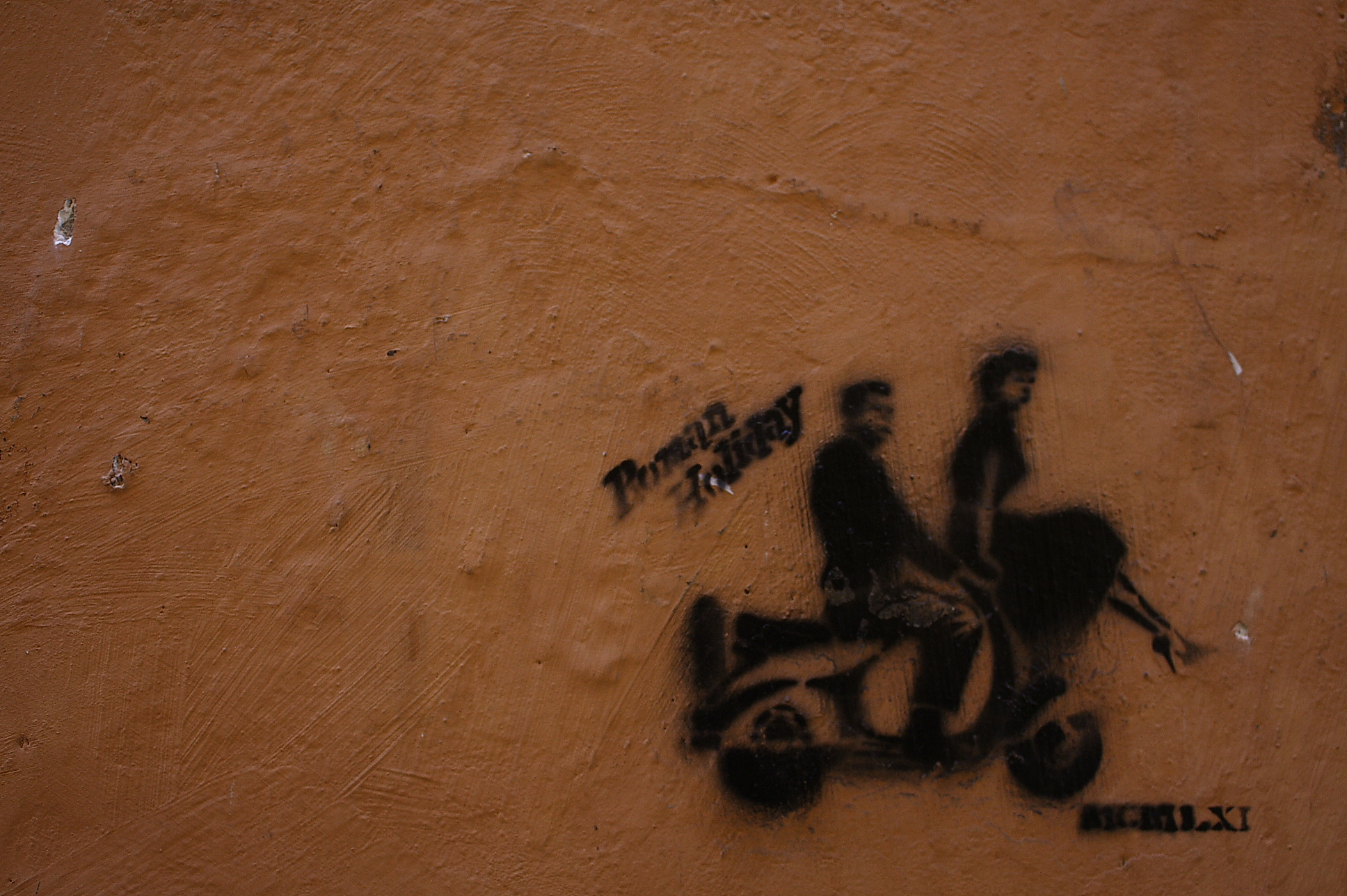 Graffiti stencil of the film Roman Holiday in Rome.